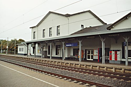 own work